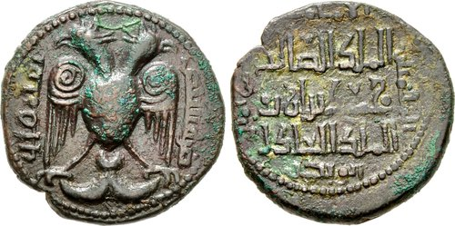 ISLAMIC, Anatolia & al-Jazira (Post-Seljuk). Artuqids (Kayfa & Amid). Nasir al-Din Mahmud. AH 597-619 / AD 1200-1222. Æ Dirhem (29mm, 7.28 g, 6h). Hisn Kayfa mint. Dated AH 610 (in Eastern Arabic numerals; AD 1213/14). Double-headed eagle displayed on ornamental base; trace of Artuqid tamgha on breast; mint formula and AH date in right and left fields / Name and title of Nasir al-Din Mahmudand Ayyubid overlord in four lines; name of Abbasid caliph in margins. Whelan Type IB, 152-3; S&S Type 15; Album 1823.1. Good VF, brown patina.